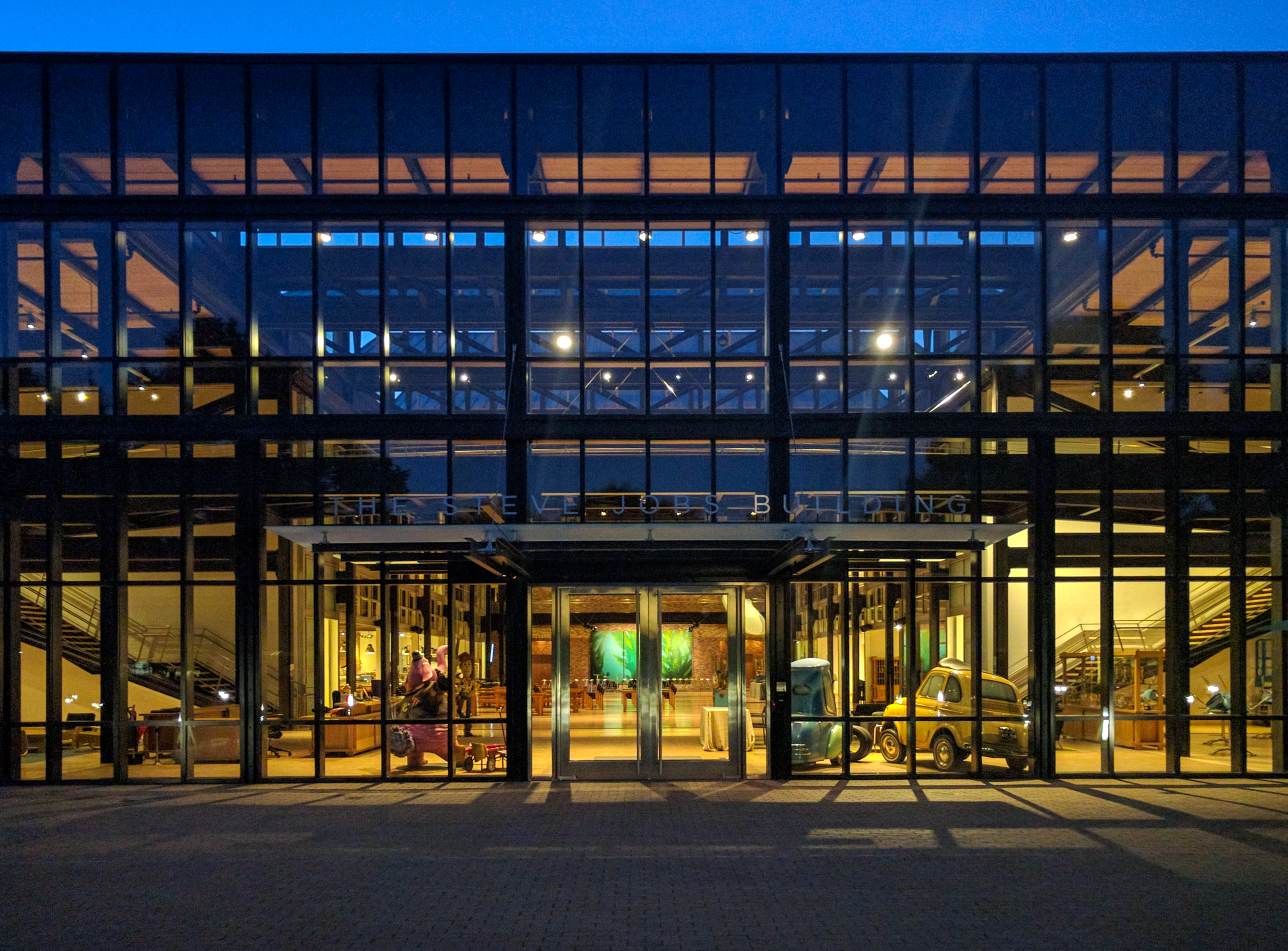 The Steve Jobs Building at Pixar, at dusk.